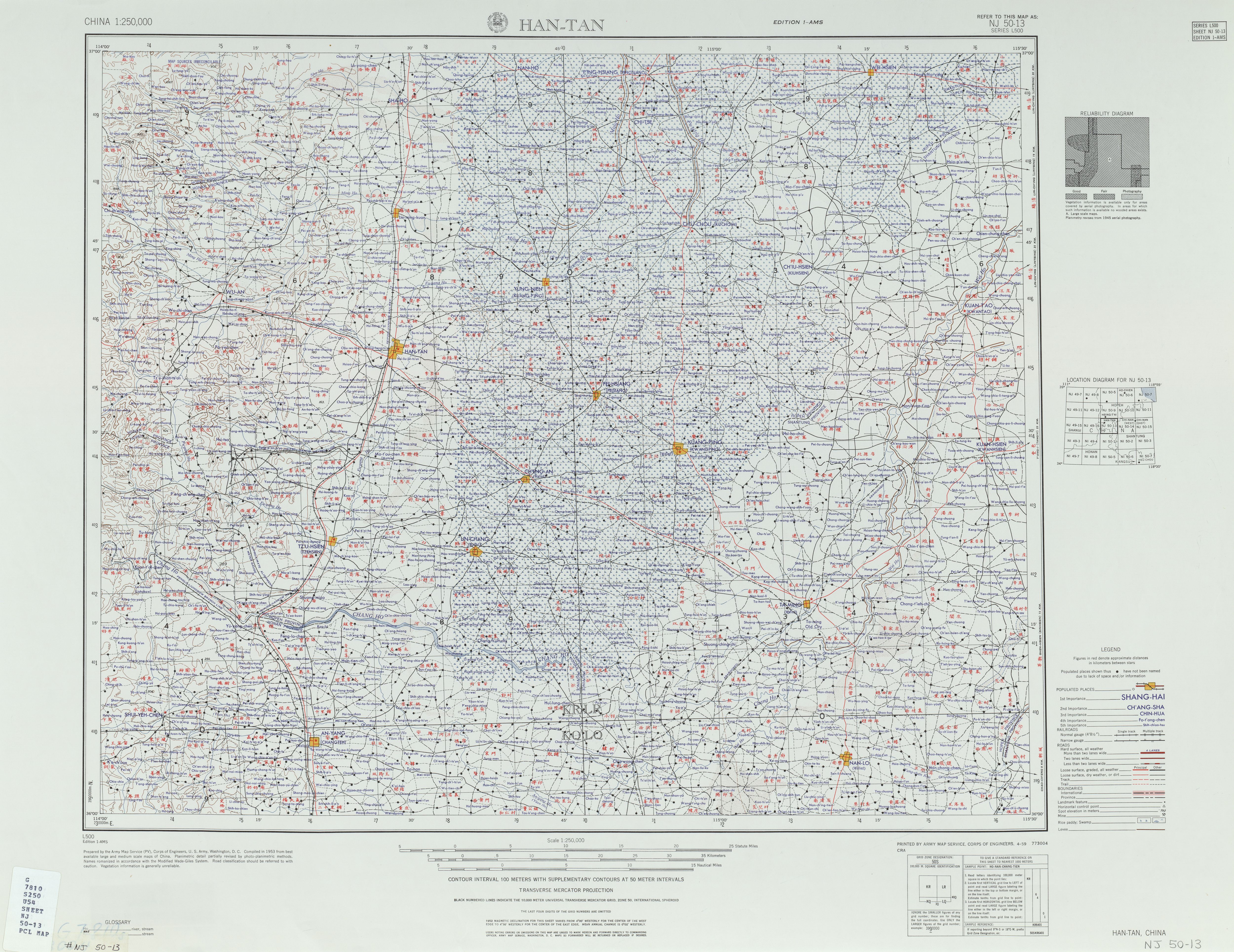 China AMS Topographic Maps